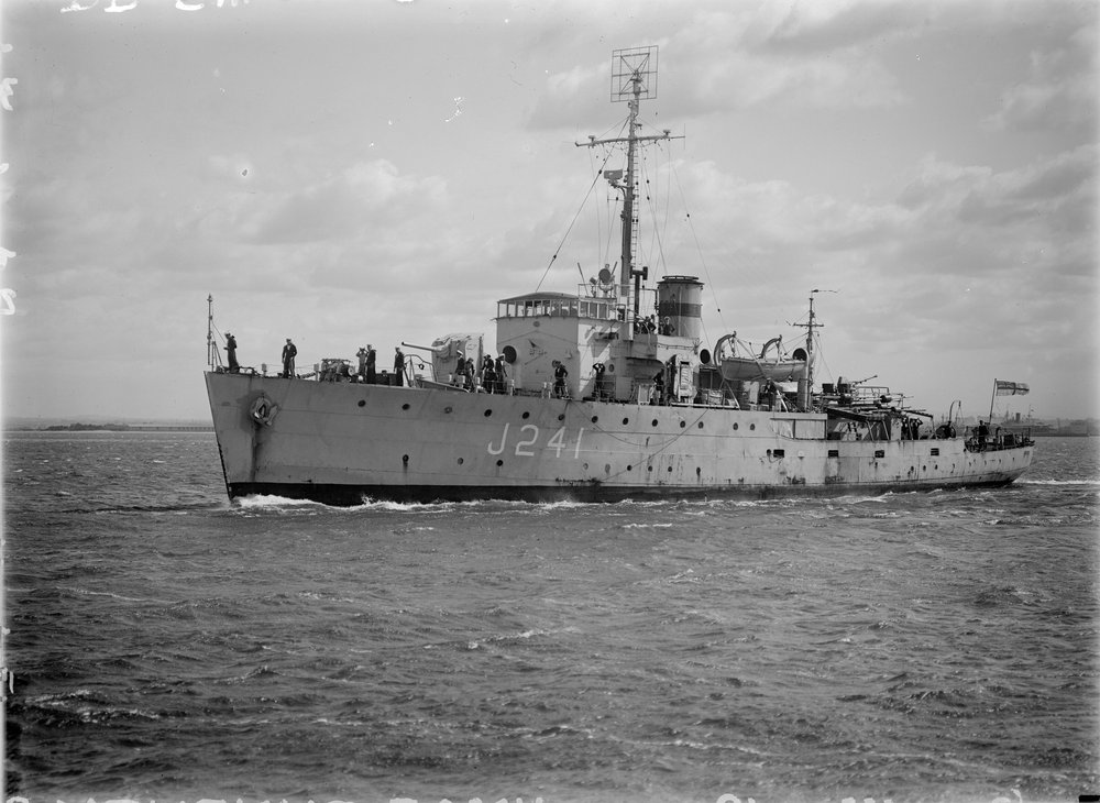 HMAS Bunbury.